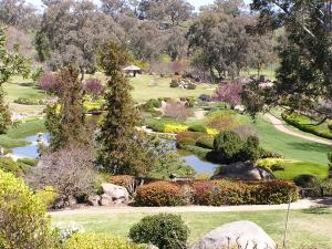 Japanese Garden at Cowra, New South Wales, Australia in Spring 2004.